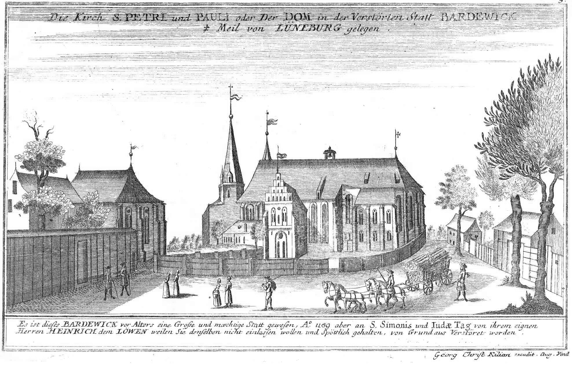 Cathedral at Bardowick 1720